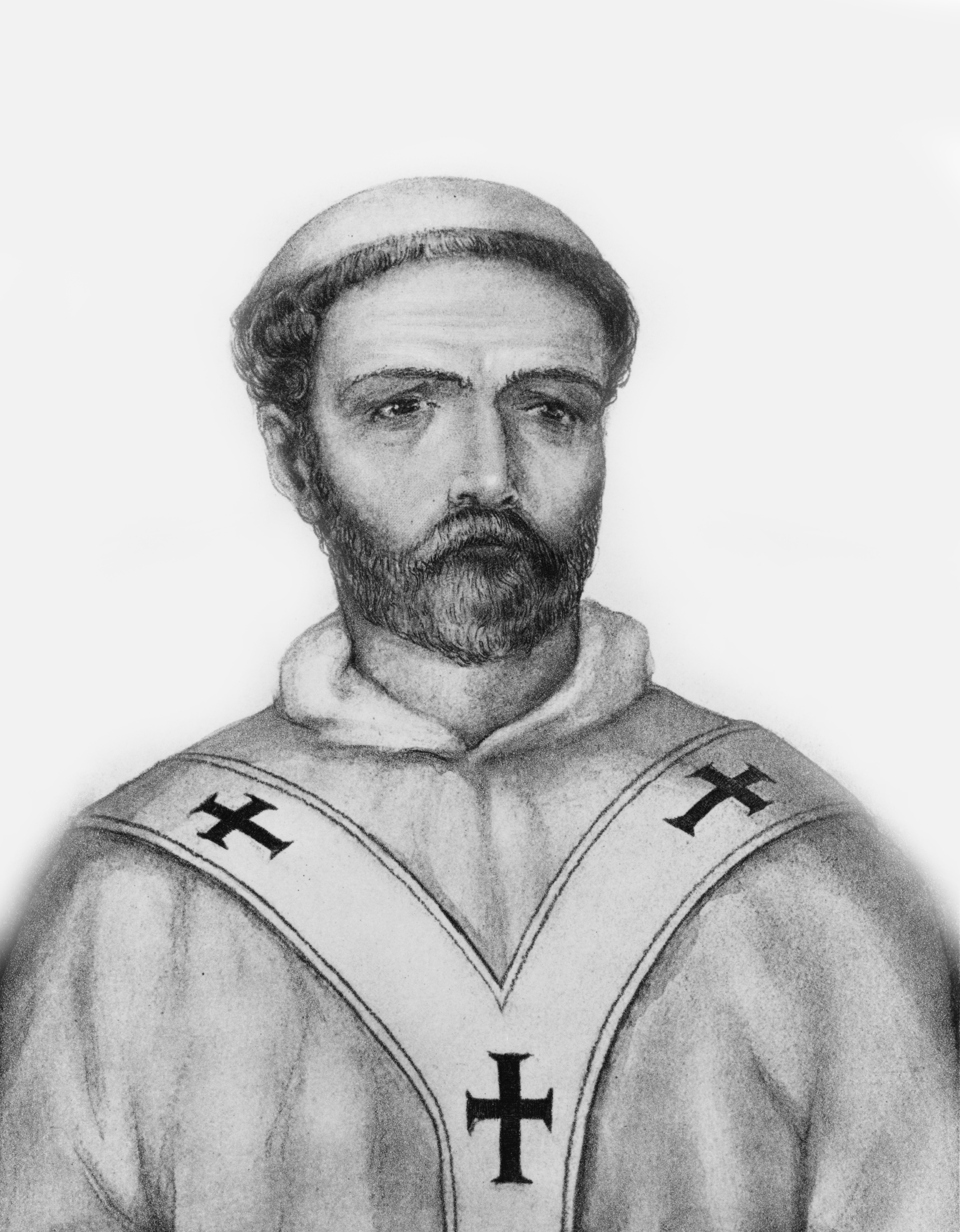 Pope John XI